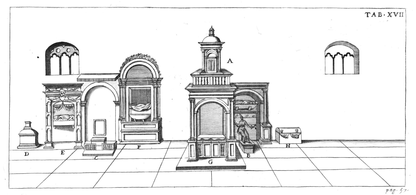 Engravings of (old) Saint Peter's Basilica in Rome.